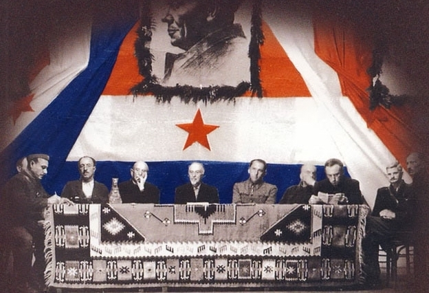 Executive Board at the 3rd session of the State Anti-fascist Council for the National Liberation of Croatia (colourised)